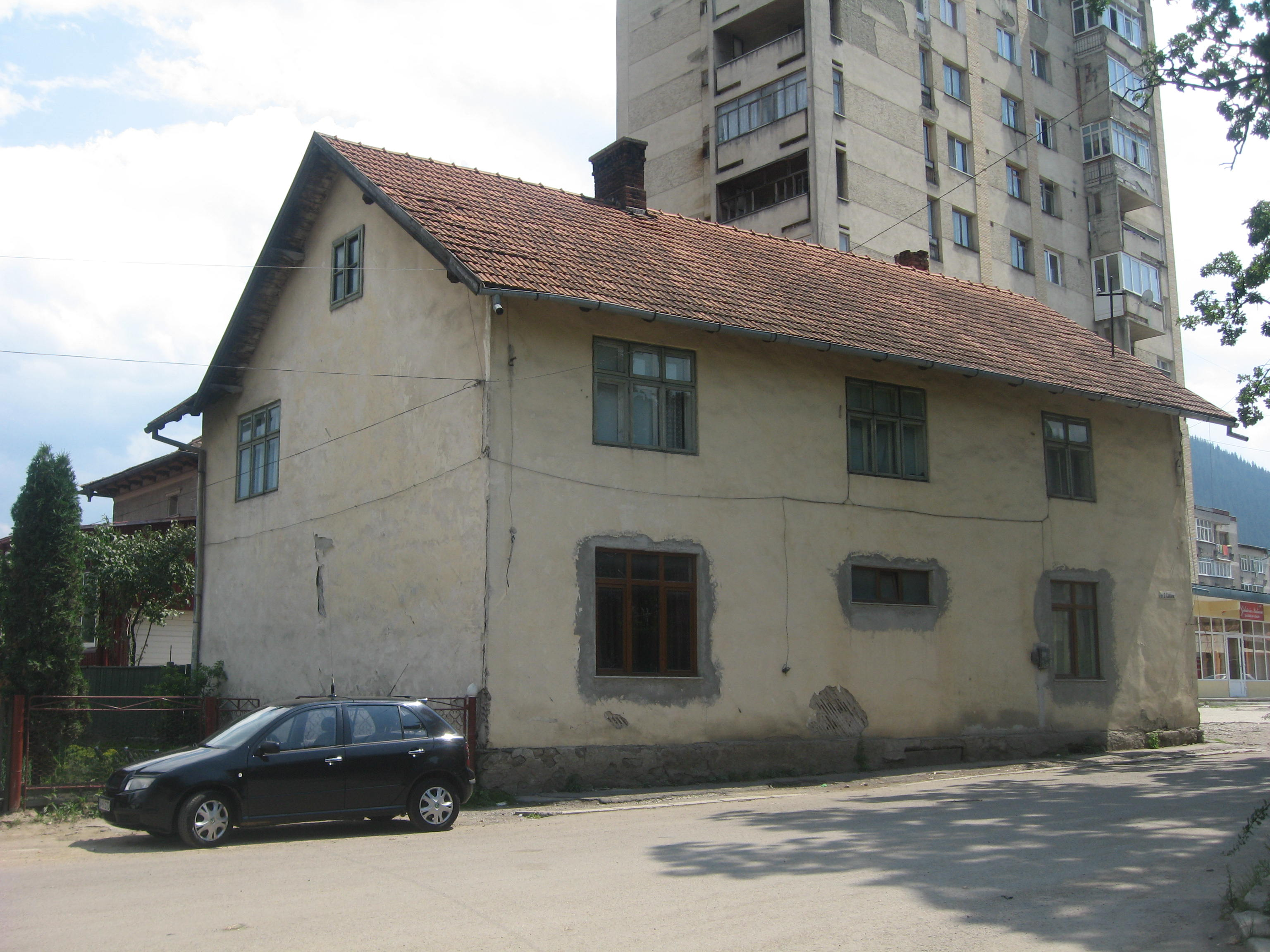 The old syngaogue in Câmpulung Moldovenesc, Romania